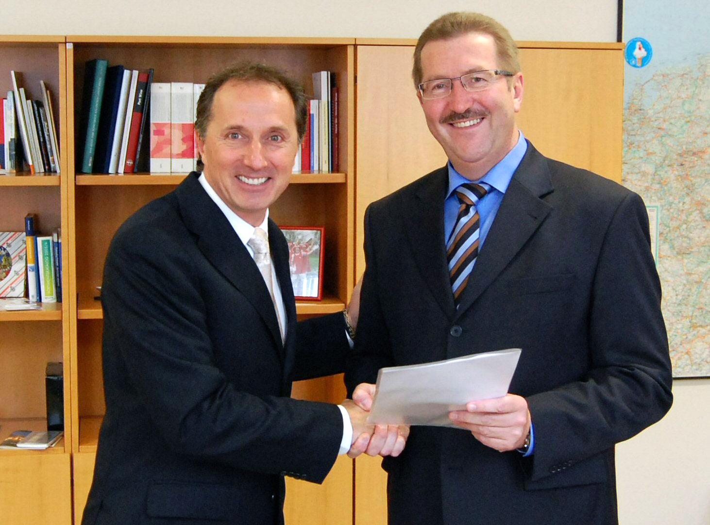 GISAID President Peter Bogner and German Ministry of Agriculture State Secretary Robert Kloos (right)